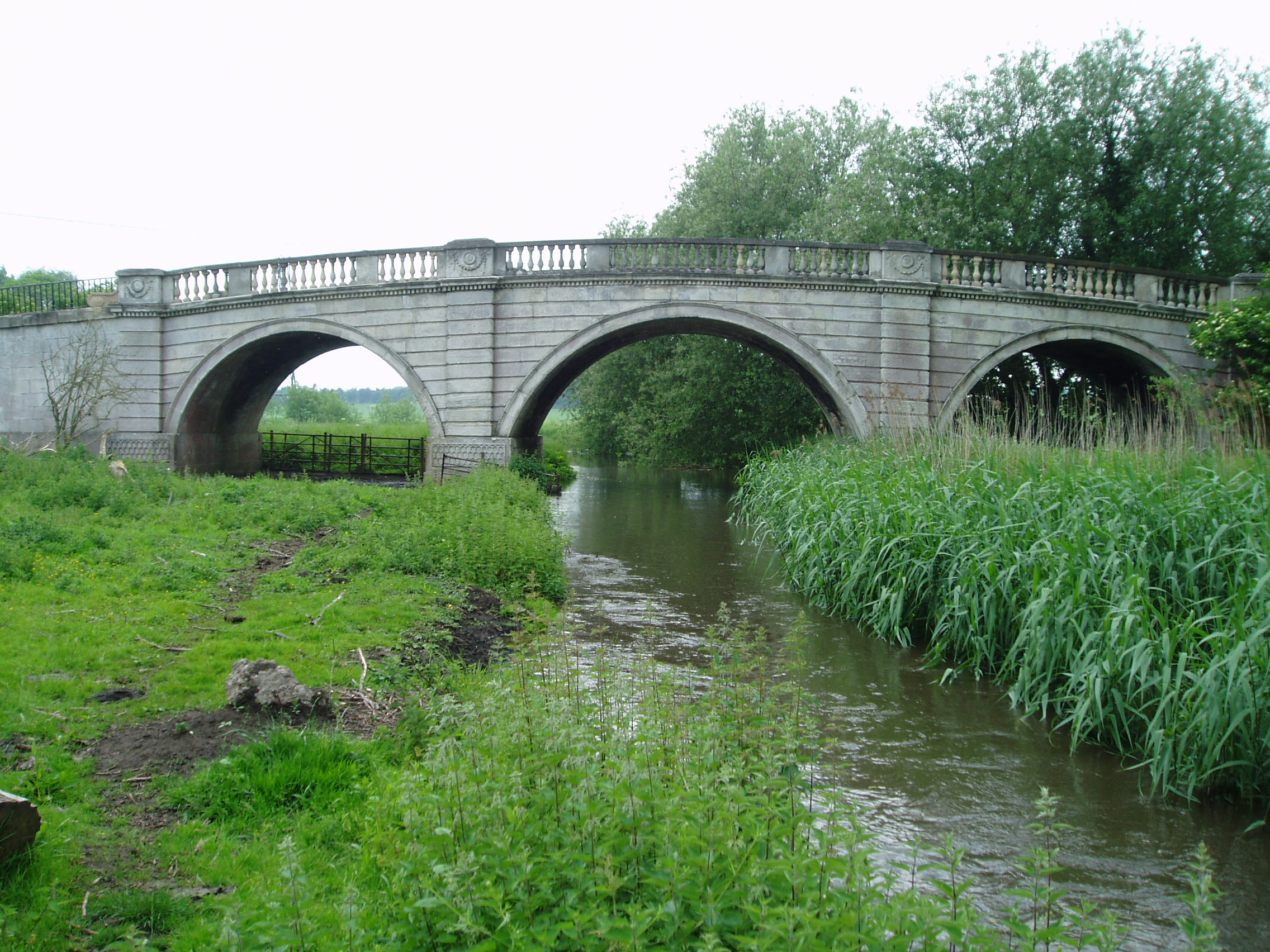 The Grade I listed Blyth New Bridge, built by John Carr in 1770, which carries the A634 over the River Ryton in Nottinghamshire, England